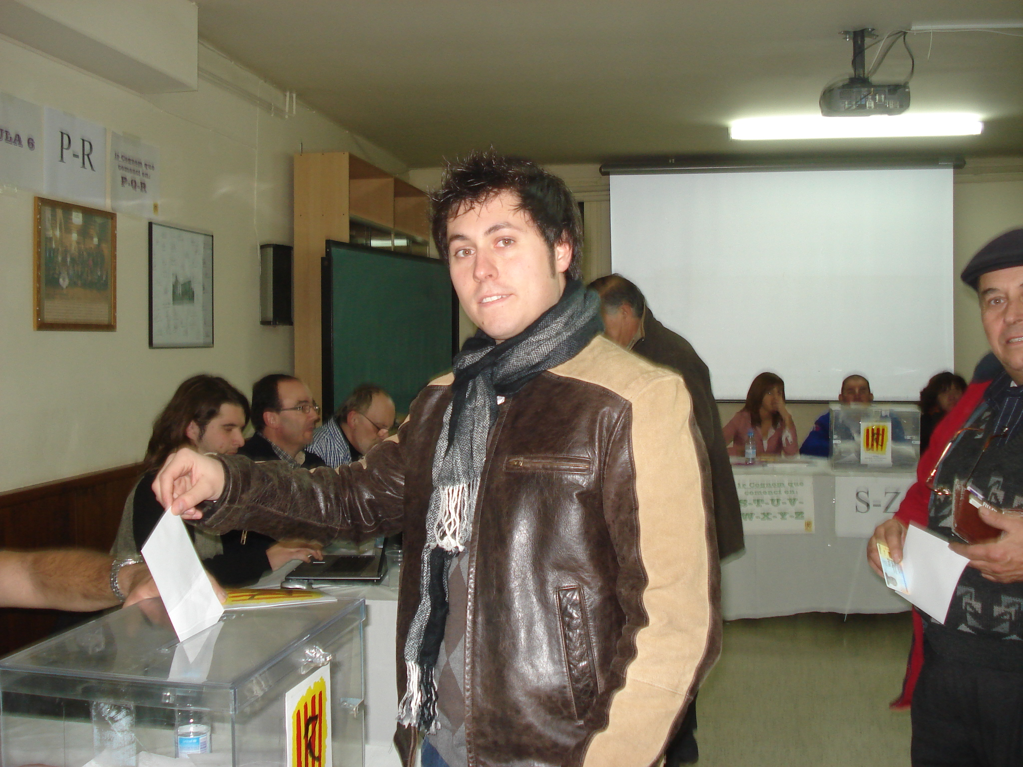 People voting in Ripoll for the referendum about the independence of Catalonia.